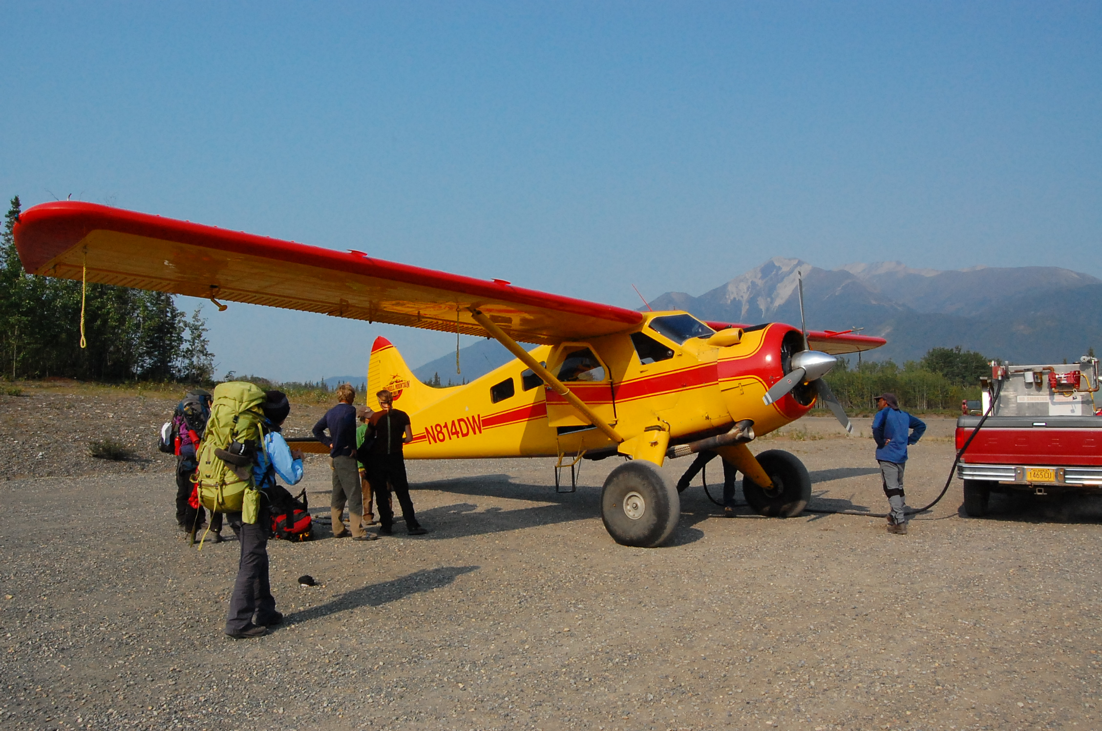 "Beaver - very reliable aircraft for the difficult terrain. But they don't make them any more."